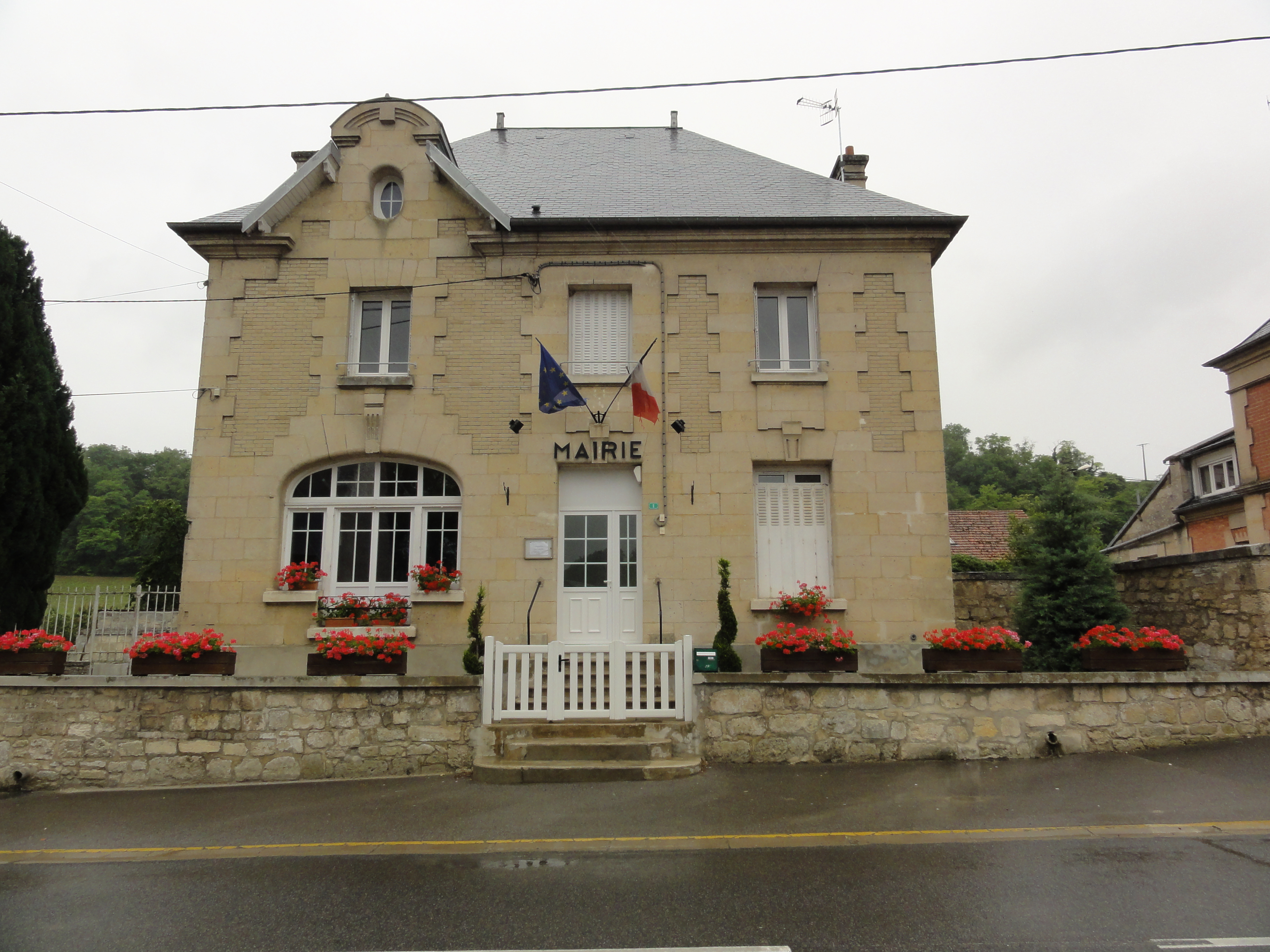 Épagny (Aisne) mairie